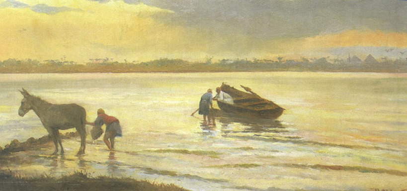 Laundry in the Nile